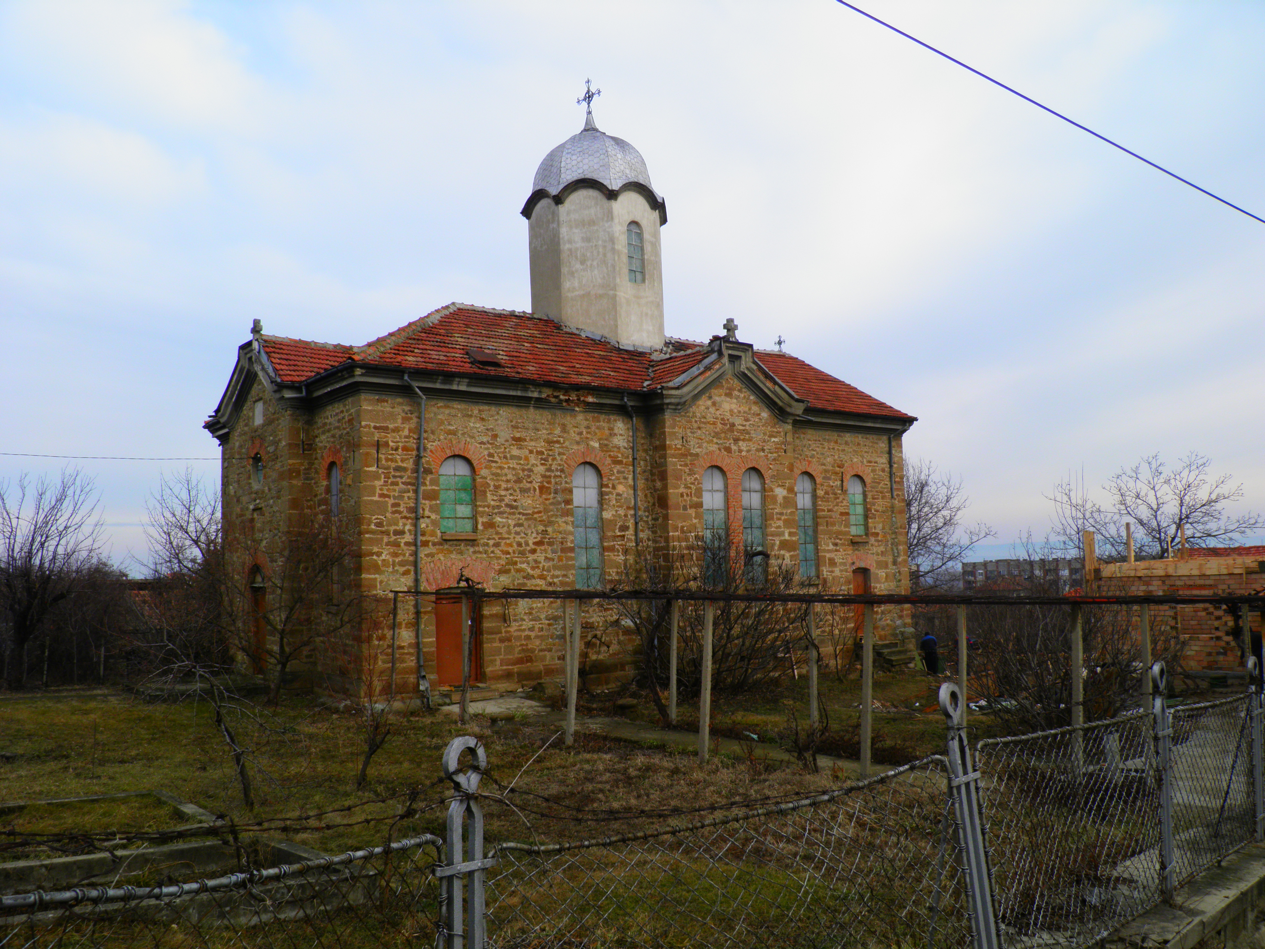 Orthodox Church Saint Georgi Lyaskovets